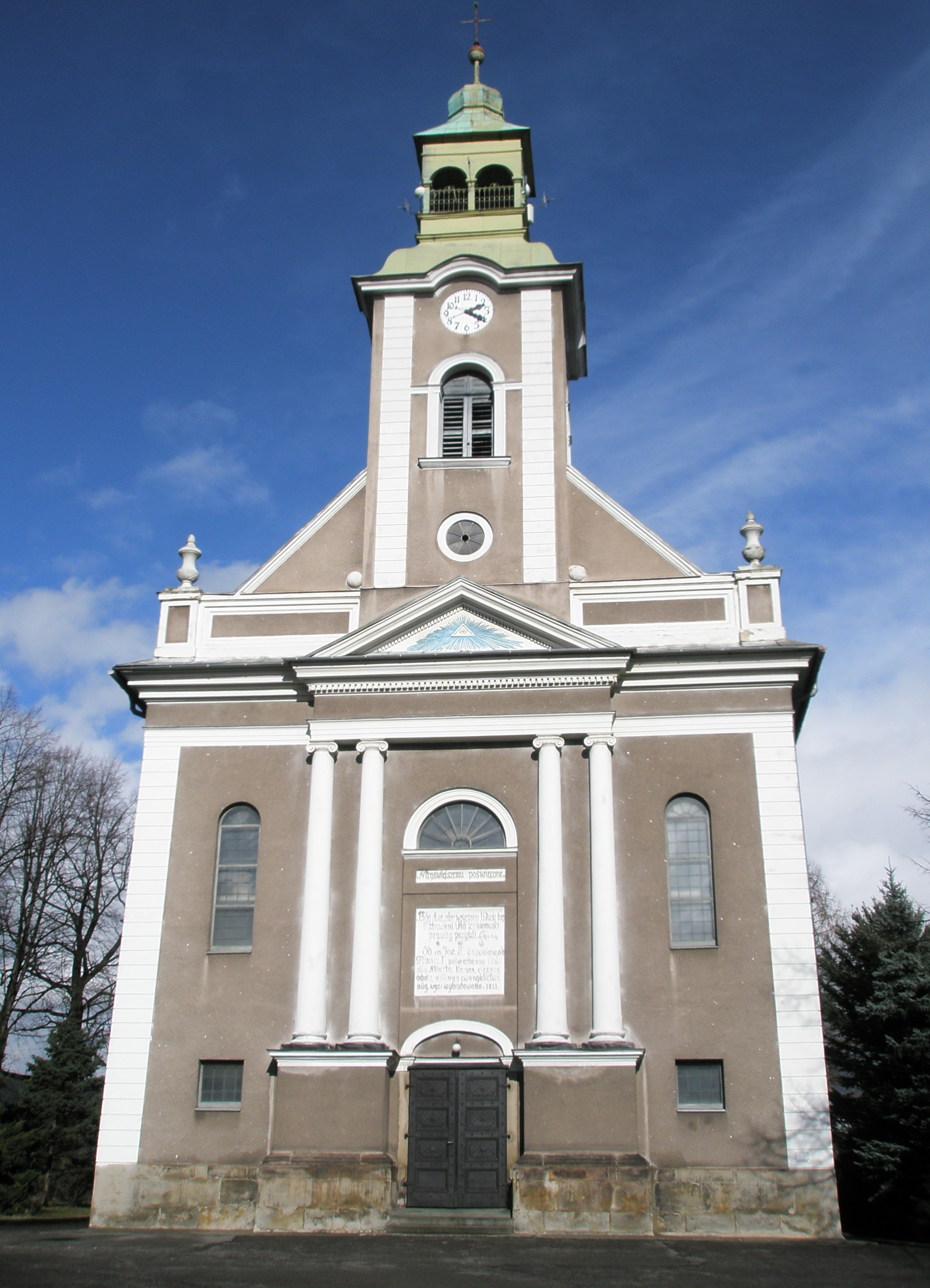 Lutheran Church in Bystřice nad Olší, Frýdek-Místek District, Czech republic